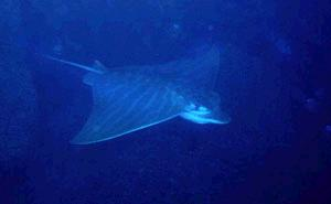 Picture of Pteromylaeus bovinus